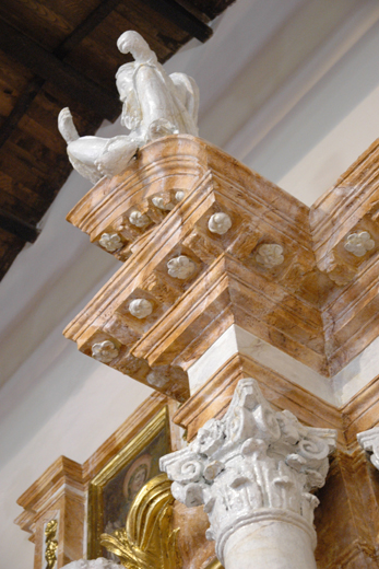 Detail, Church of Saints Fabiano and Sebastian, Fiamognano, Italy, after restoration